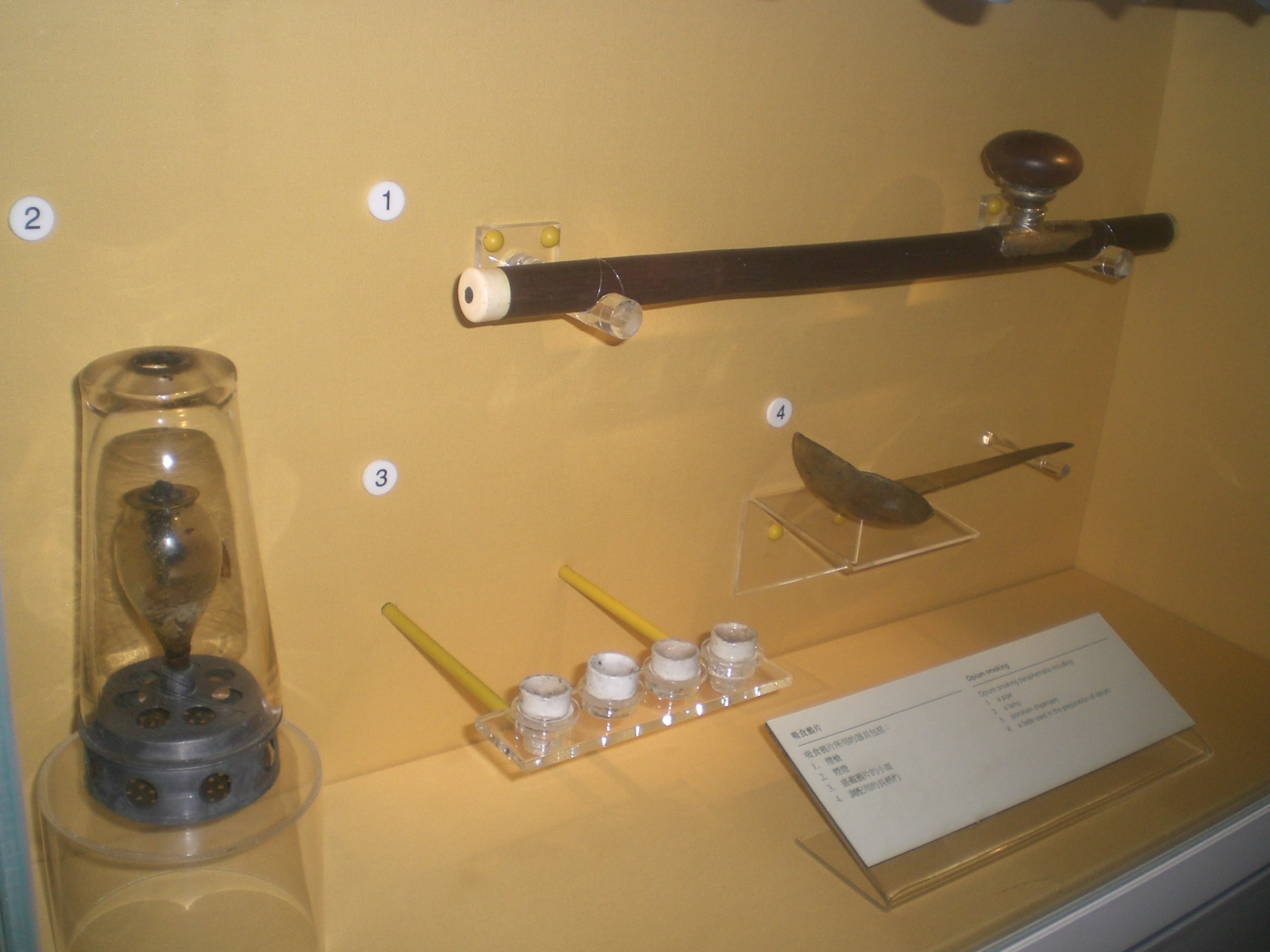 筲箕灣 香港海防博物館 鴉片